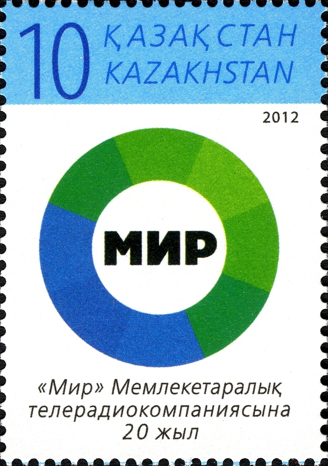 Stamps of Kazakhstan, 2012